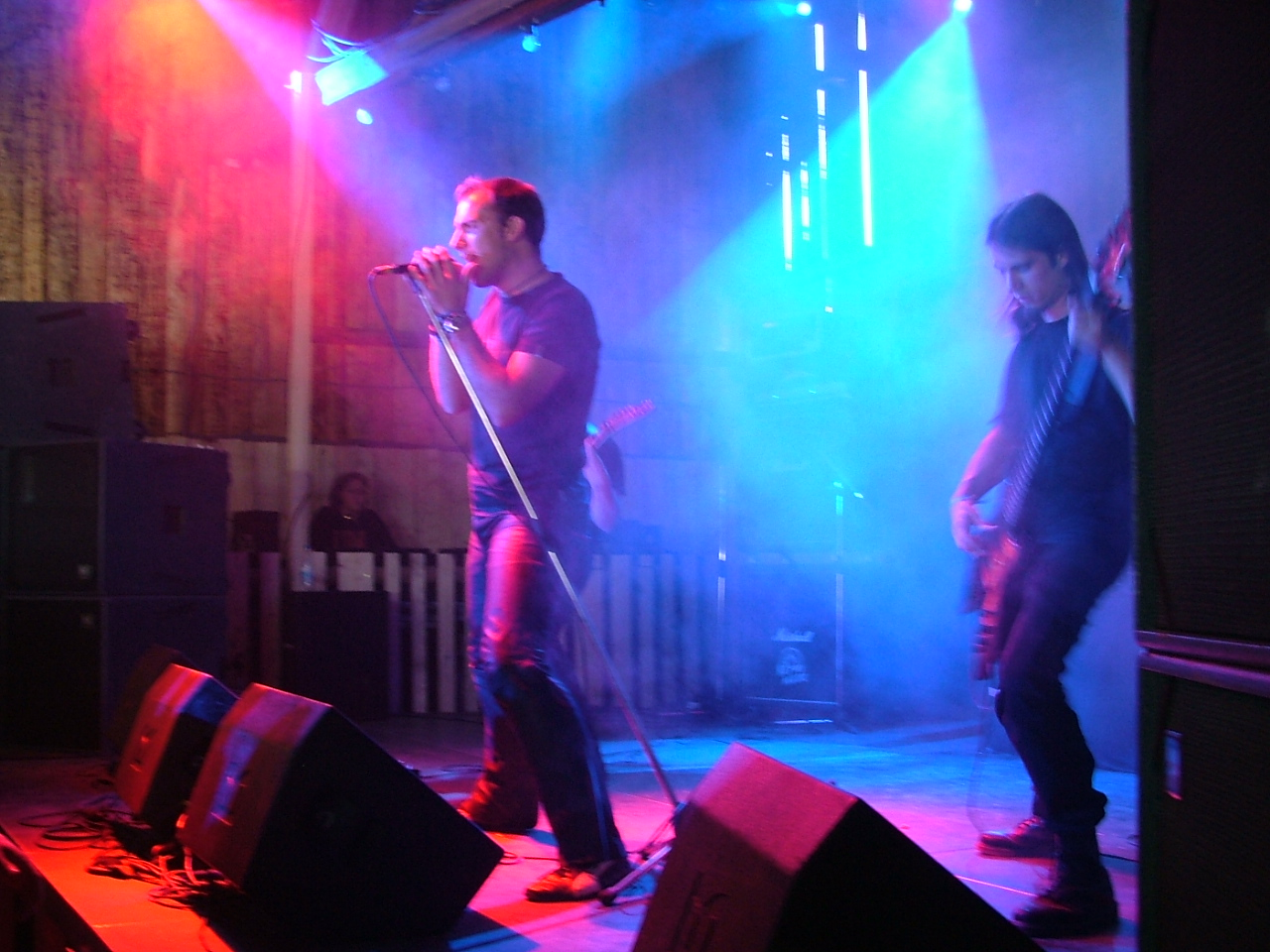 Austrian progressive metal band Serenity